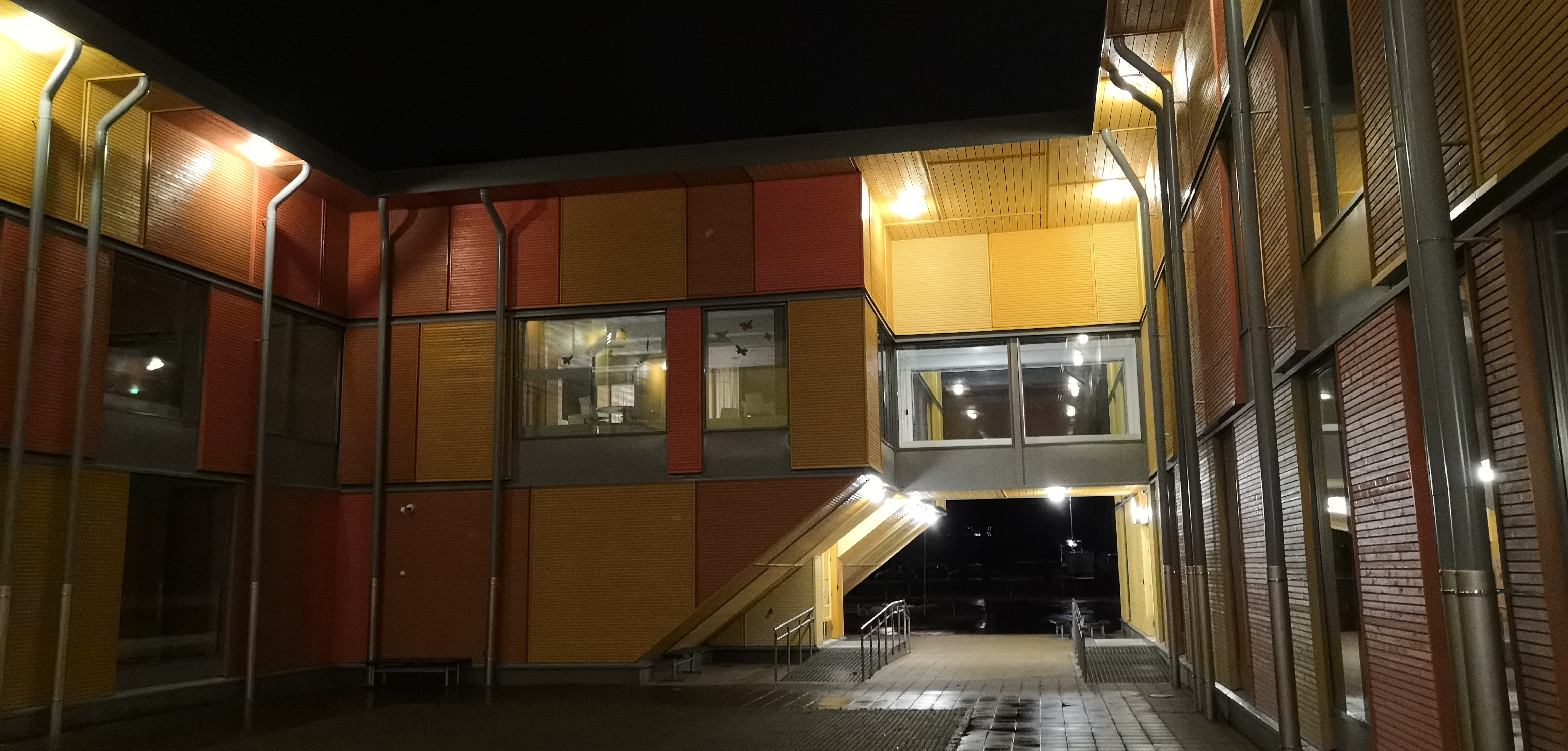 Mansikkamäen koulun sisäpiha yöllä